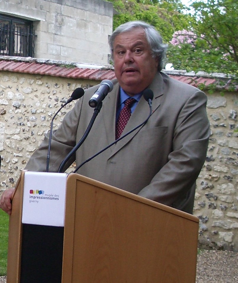 Jean-Louis Destans at Giverny